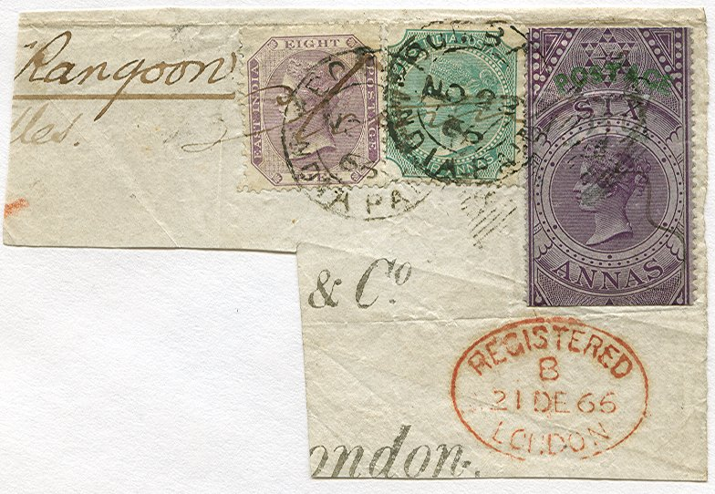 A piece of registered mail postmarked Bombay, November 23, 1866. The postage of 10 1/2 annas includes 4 annas for registration. The 6 annas stamp of 1866, SG68, was a provisional made by overprinting 'POSTAGE' on a part of a revenue stamp. Placed aboard the steamer "Rangoon", the mail crossed the Isthmus of Suez by the overland route (before the canal was opened) and was taken to Marseilles, again by steamer. This reached London by December 21, about 28 days after departure.